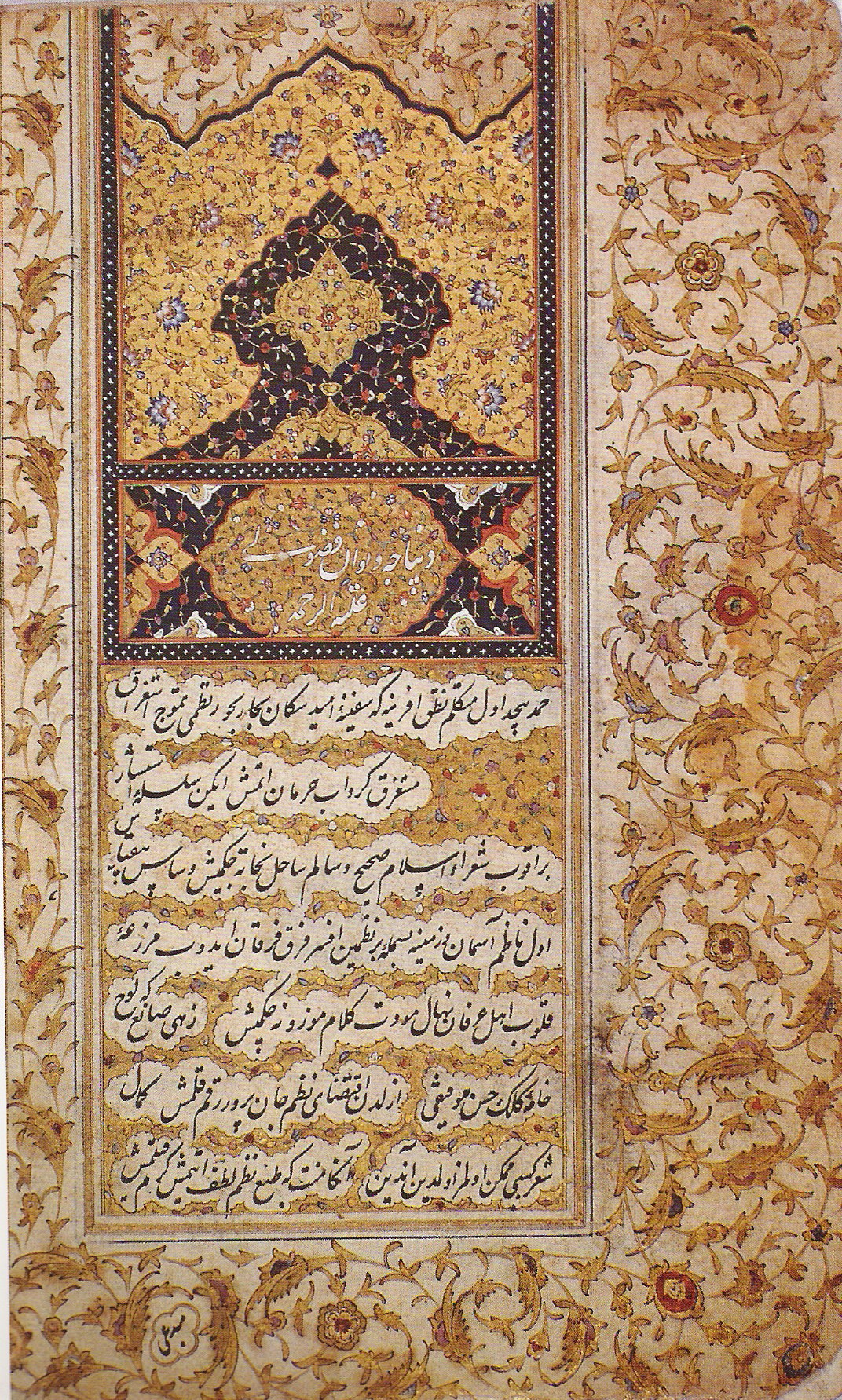 A page from the Dîvân-ı Fuzûlî, the collected poems of the 16th-century Ottoman poet Fuzûlî. A page from the collected poems of Fuzûlî.